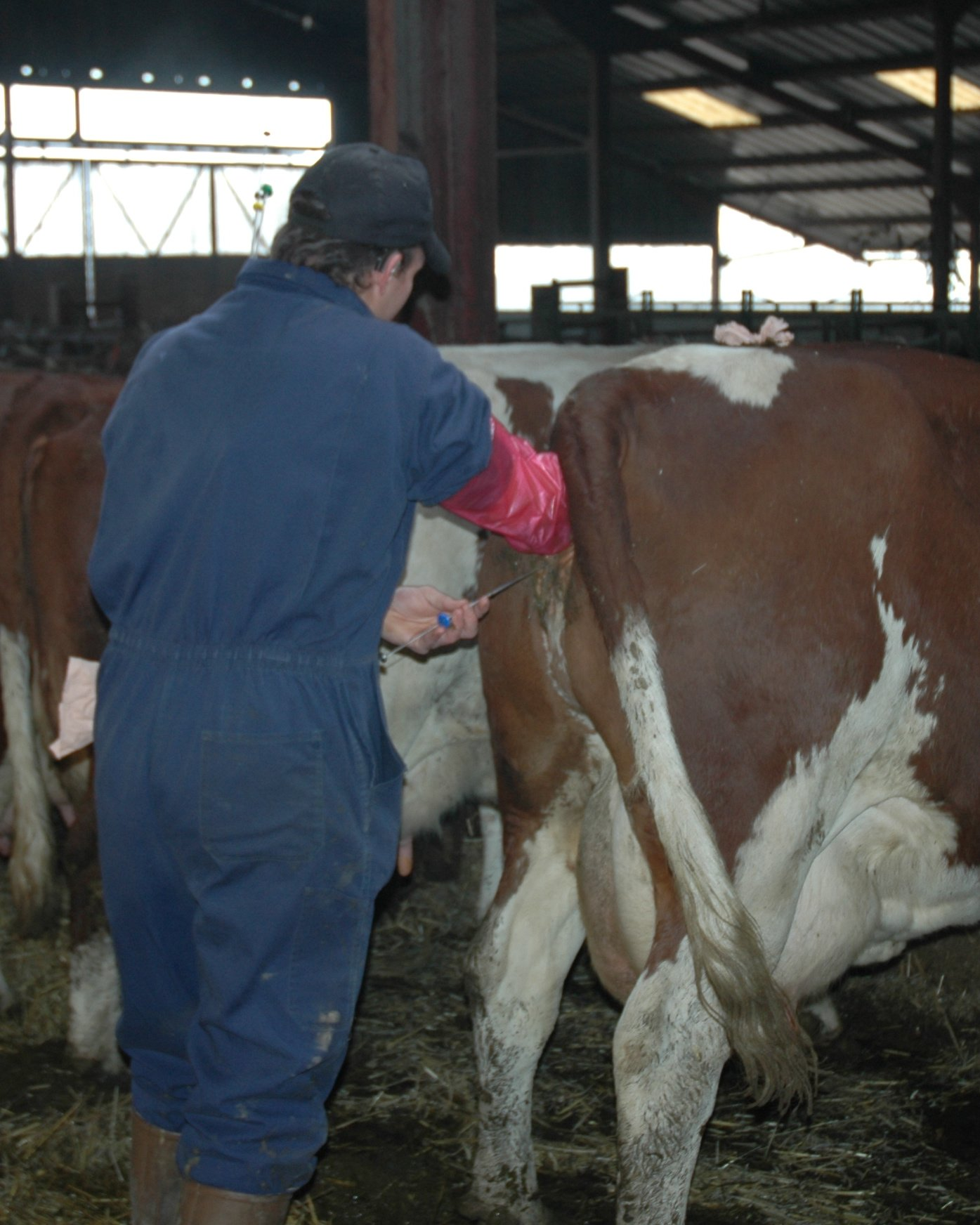 Artificial insemination of a dairy cow with frozen sperm from bull